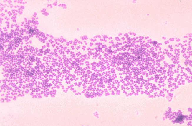 Micrococcus mucilaginosis. Obtained from the CDC Public Health Image Library. Image credit: CDC/Dr. Richard Facklam (PHIL #977), 1980.